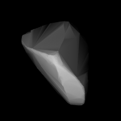 3D convex shape model of 1750 Eckert, computed using light curve inversion techniques. J. Hanuš, J. Ďurech, M. Brož, B. D. Warner (June 2011). "A study of asteroid pole-latitude distribution based on an extended set of shape models derived by the lightcurve inversion method". Astronomy and Astrophysics 530: A134. ISSN 0004-6361. arXiv